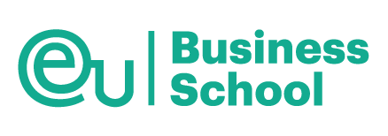 EU Business School logo 2017